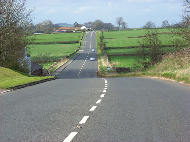 The A6, Plumpton A fast stretch of road here descends slightly from Plumpton Head.